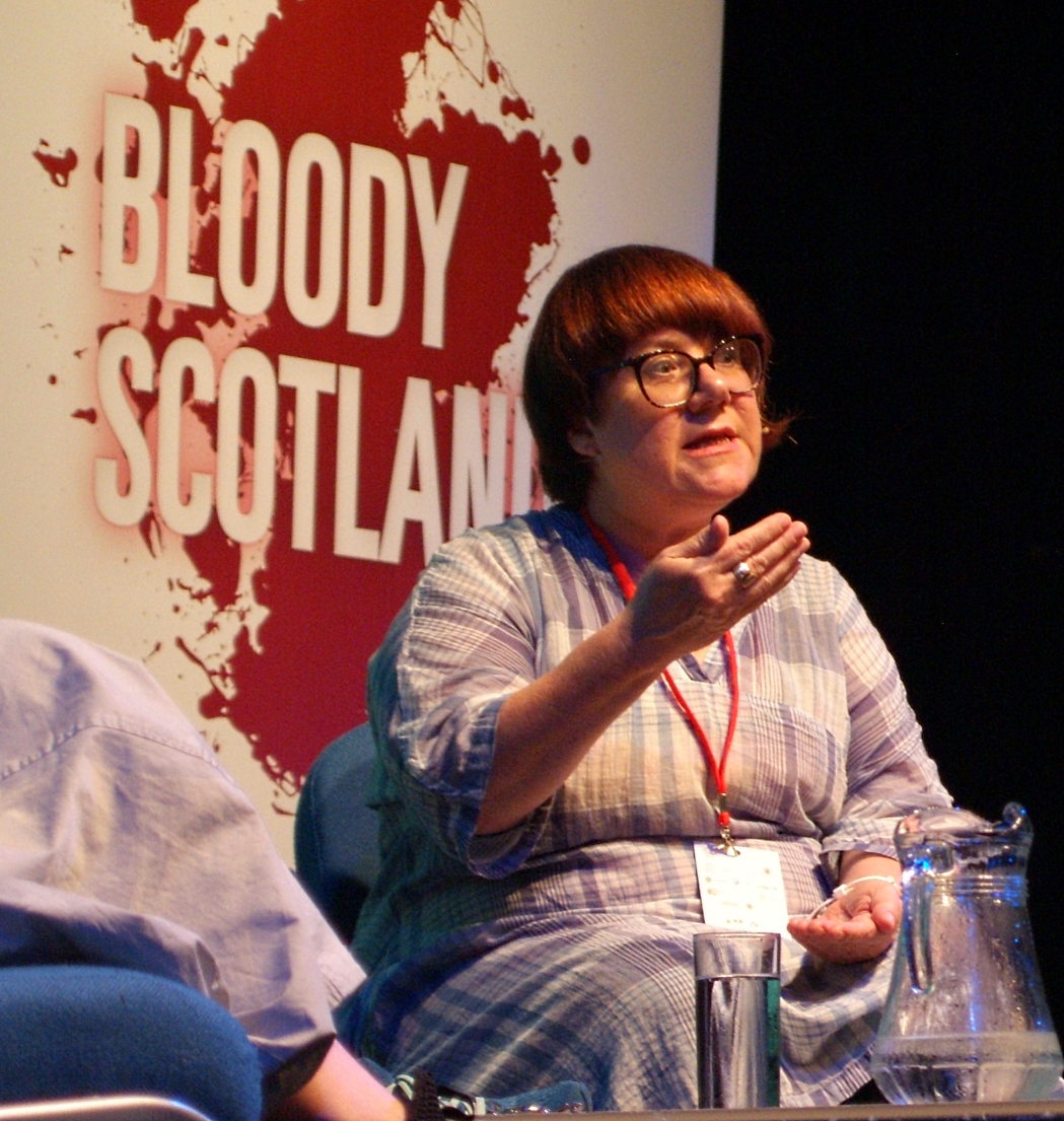 Author Louise Welsh at the Bloody Scotland 2019 International Crime Writing Festival in Stirling.